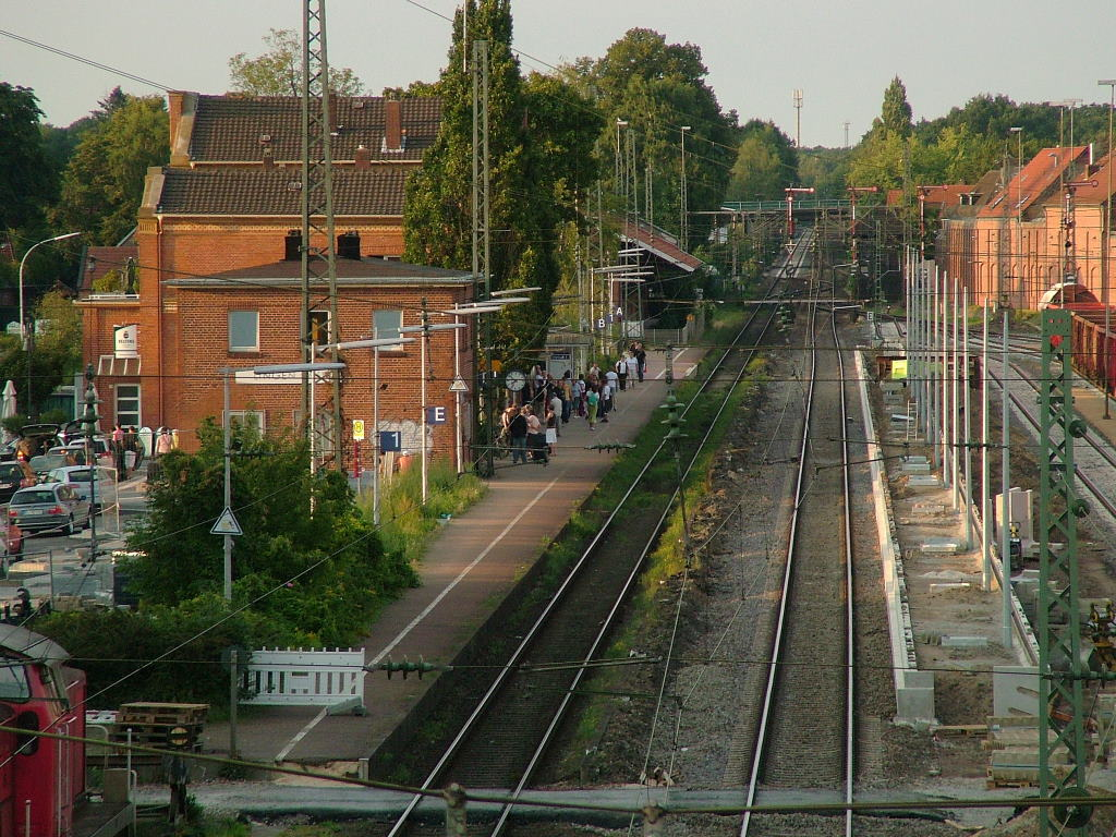 An overview over the German train station Lingen(Ems) during rebuilding in summer of 2009